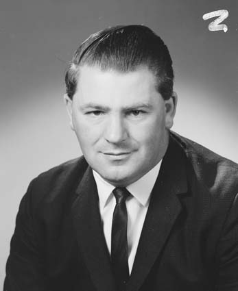 A 1968 black and white portrait of Gordon Scholes, MHR for Corio